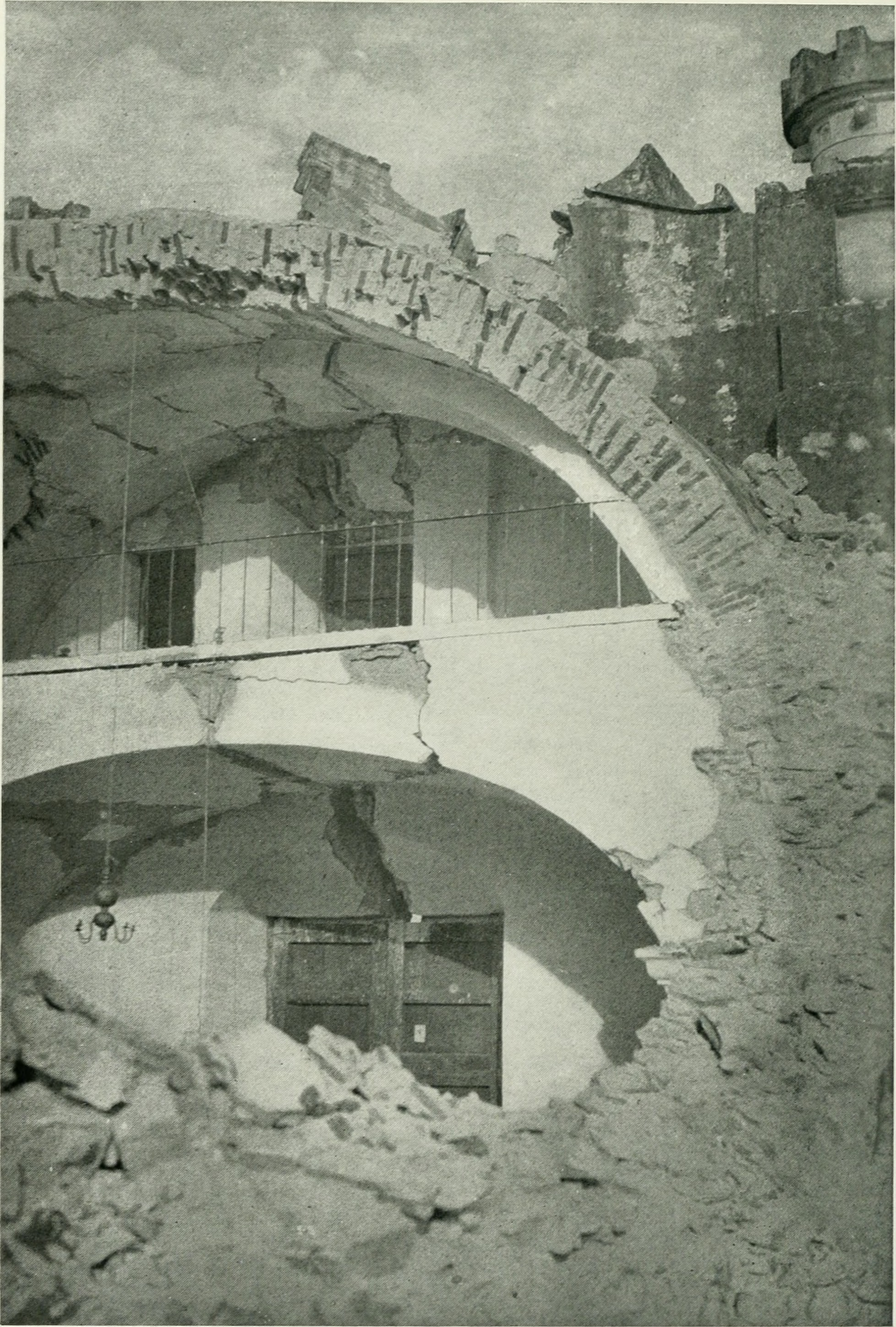 Title: The American Museum journal Year: [1918 c1900-[1918 (c190s) Authors: American Museum of Natural History Subjects: Natural history Publisher: New York : American Museum of Natural History Text Appearing Before Image: ' Text Appearing After Image: CHOIR OF THE LITTLE CHURCH ON THE CERRITO DEL CARMEN Built in 1620 this chapel survived the frequent and heavy shocks of the seventeenth and eighteenth centuries only to collapse on the night of January 3, when within two years of its third centenary 200